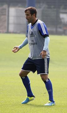 Rafael van der Vaart in 2013